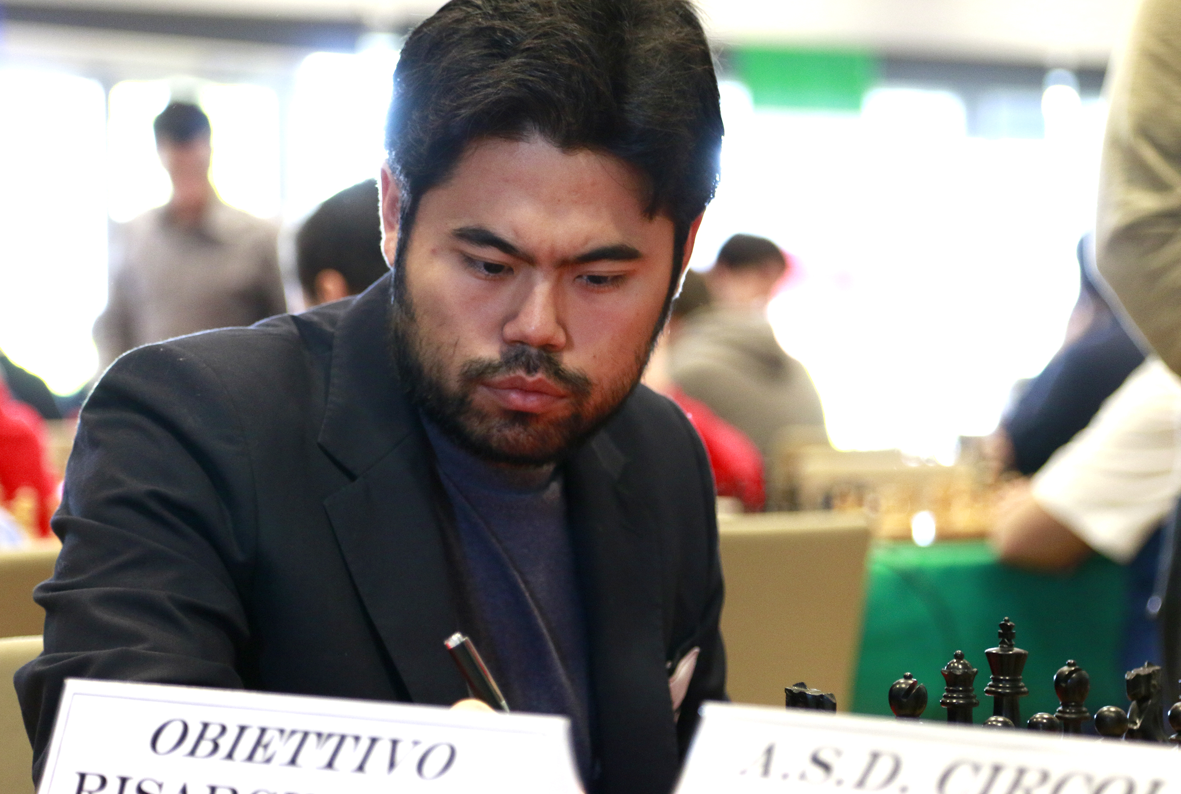 Hikaru Nakamura, chess Grandmaster. Italian Team Championship, Civitanova Marche (Italy), April 29th/May 3rd, 2015.